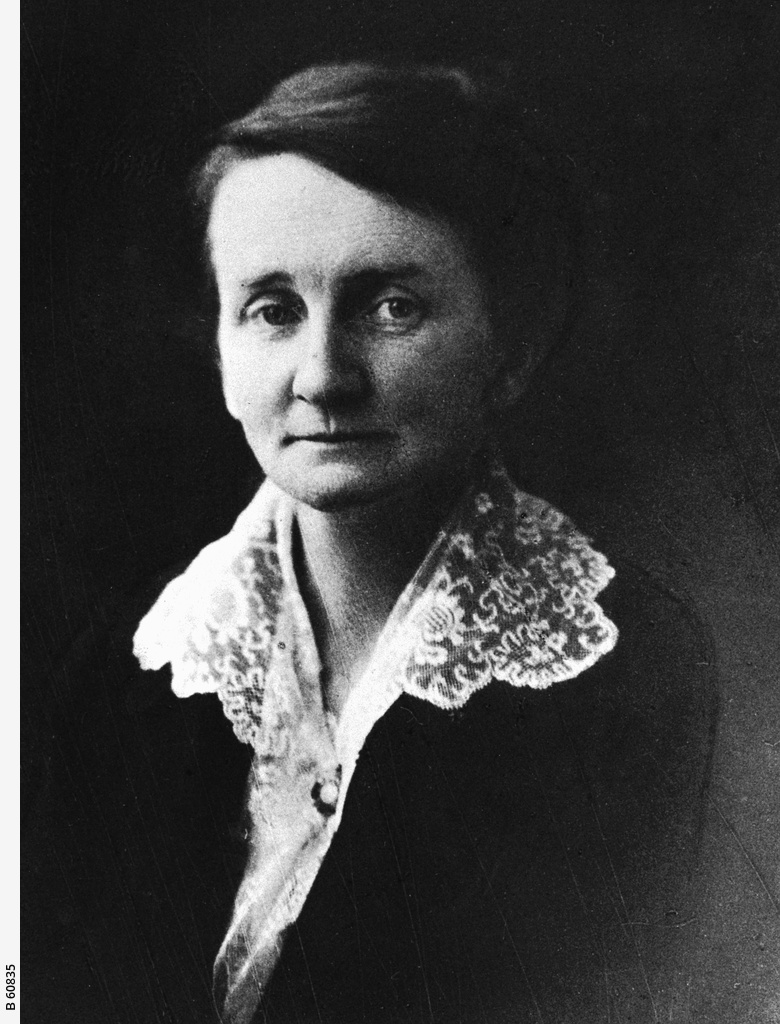 Susan Grace Benny, the first woman elected to Local Government in South Australia; she served on the Brighton Council on behalf of Seacliff ward from November 1919 to December 1921. State Library of South Australia B-60835